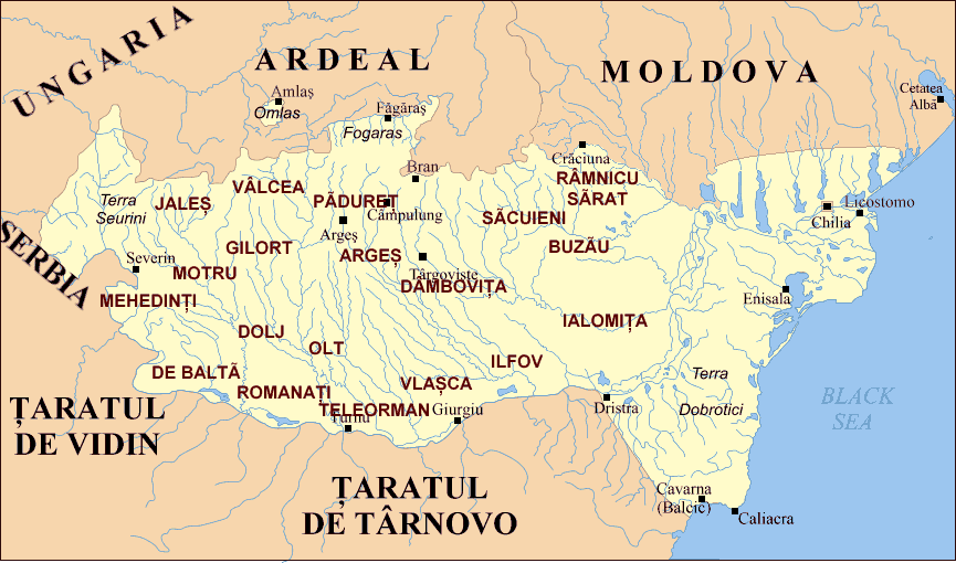 Wallachian Judete (Counties) during XIVth - XVIth centuries.